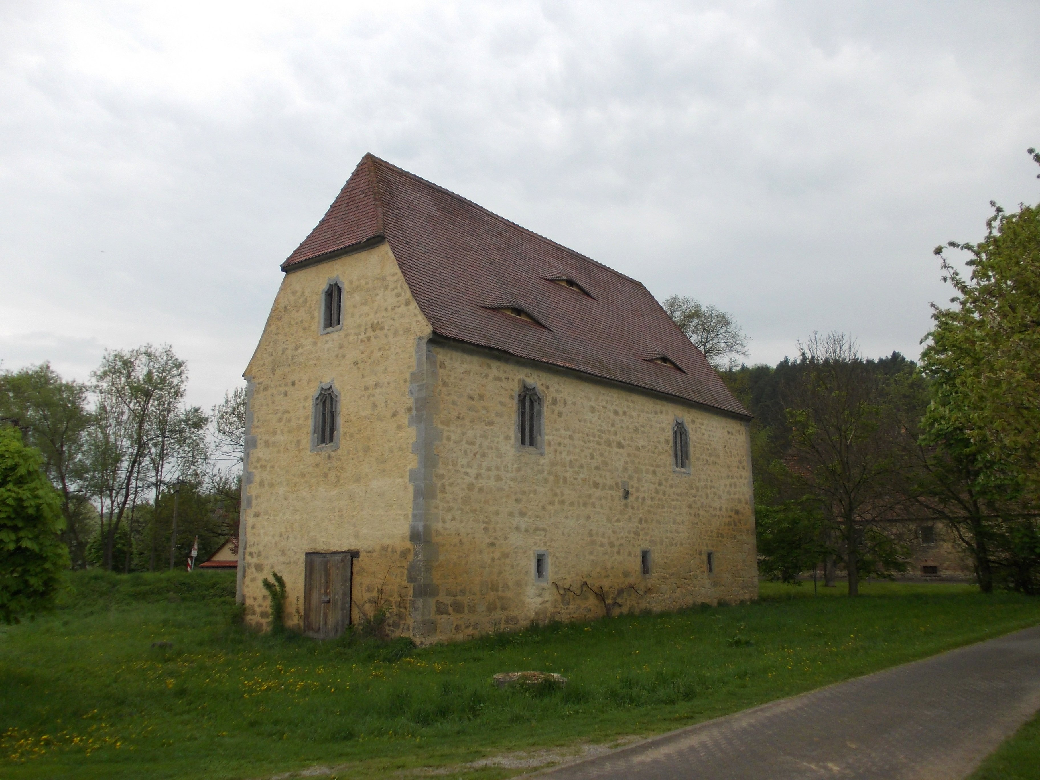 The Gothic House of Burghessler (An der Poststrasse, district: Burgenlandkreis, Saxony-Anhalt)